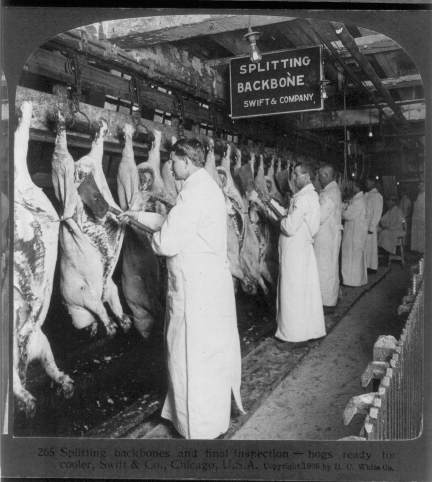 Splitting backbones and final inspection - hogs ready for cooler, Swift & Co., Chicago. Photographic print on stereo card.